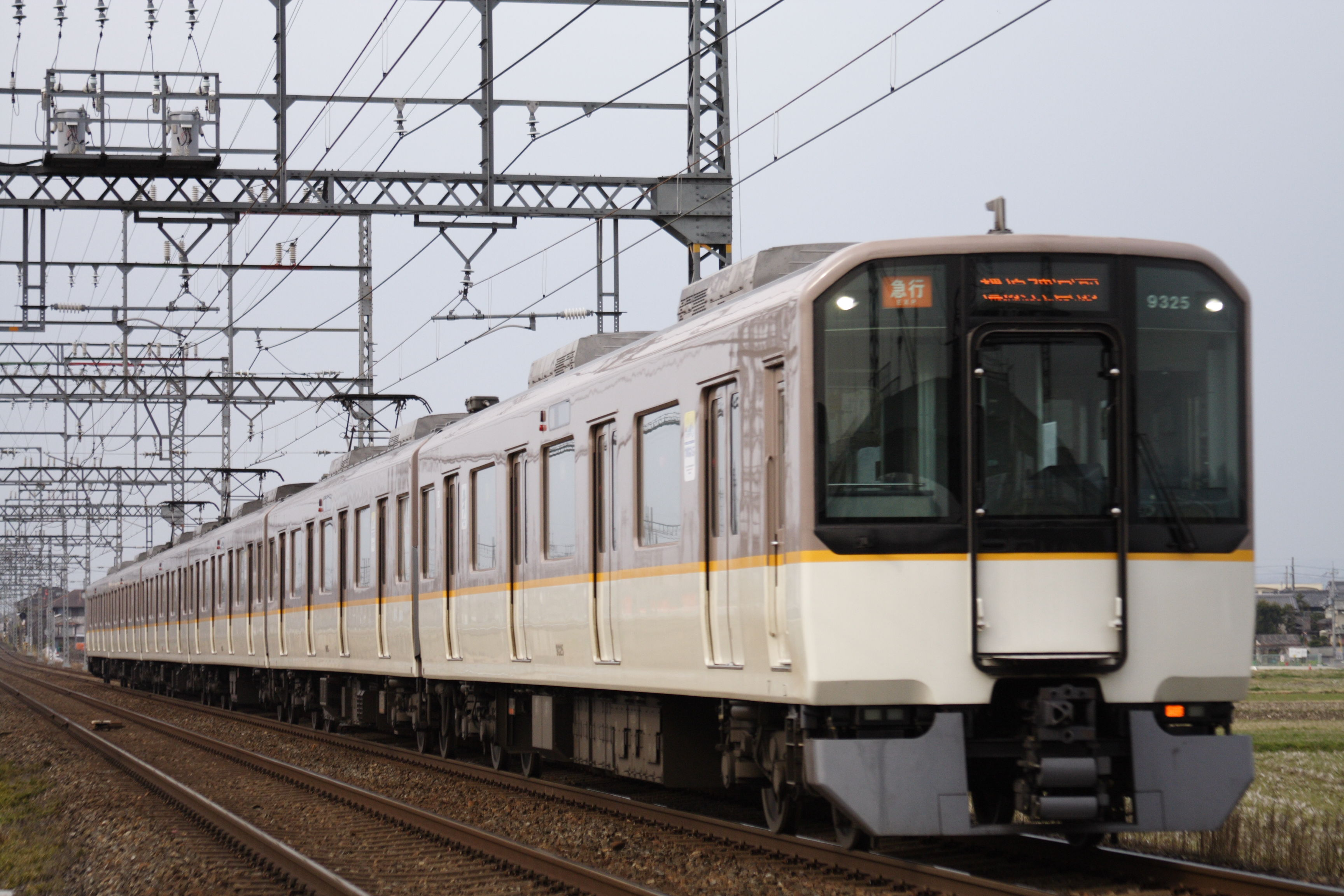 近畿日本鉄道・9820系電車/series 9820 electric car of Kintetsu Corporation